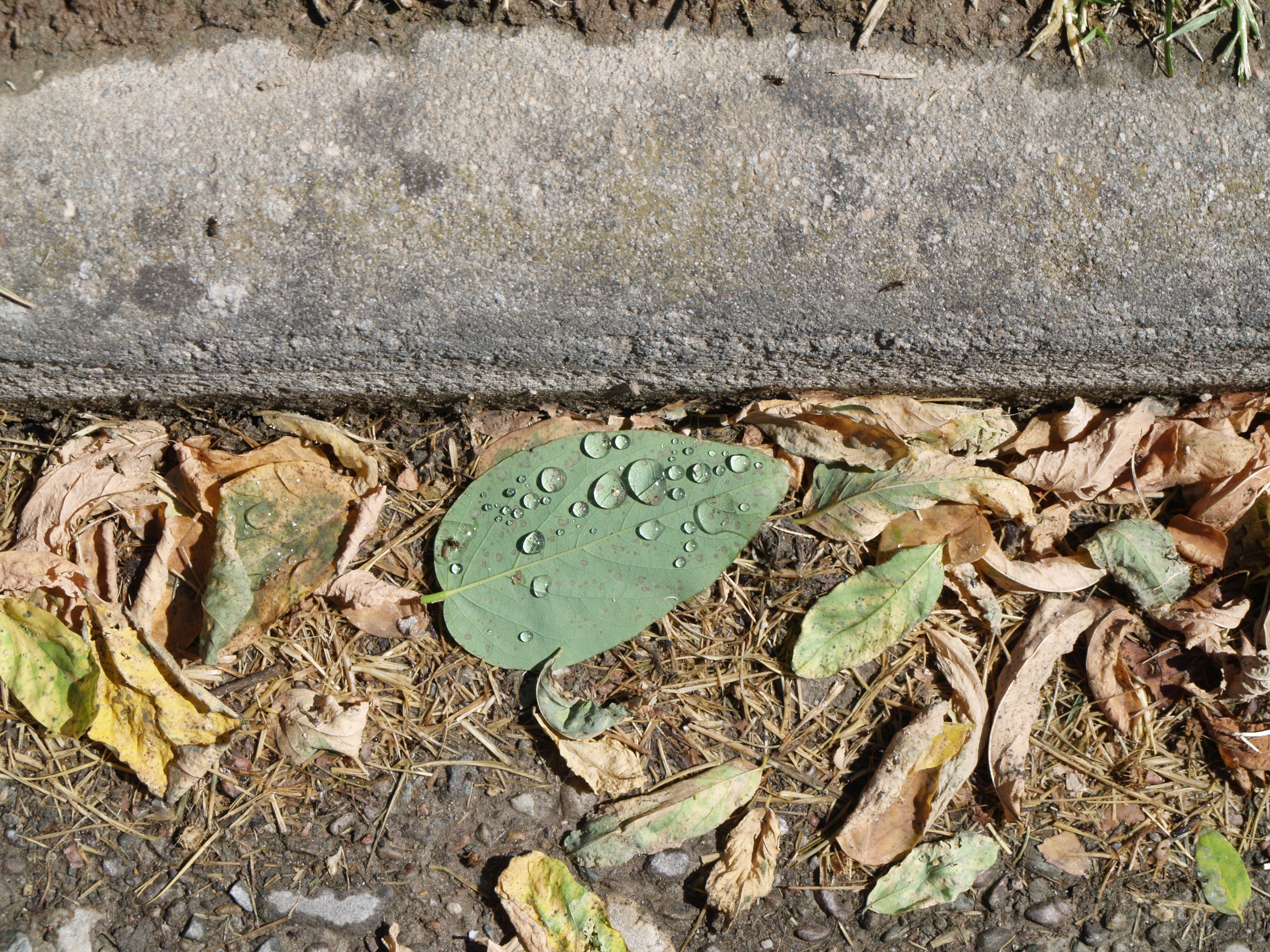 Water droplets on a leaf on the campus of the University of La Rioja.